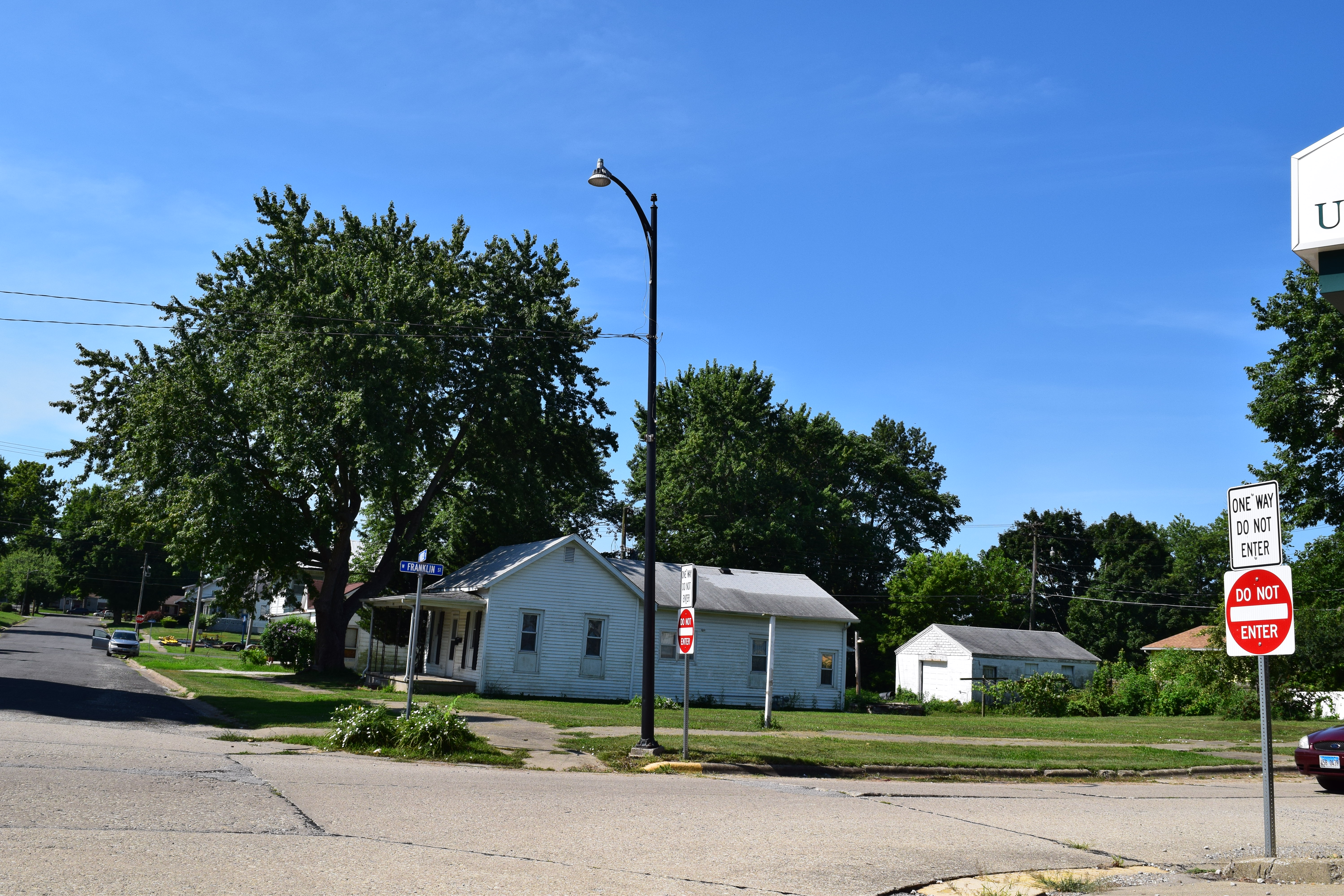 The site of the Hotel Roodhouse in Roodhouse, Illinois, which is no longer standing at the site. The hotel is still listed on the National Register of Historic Places despite its apparent demolition.